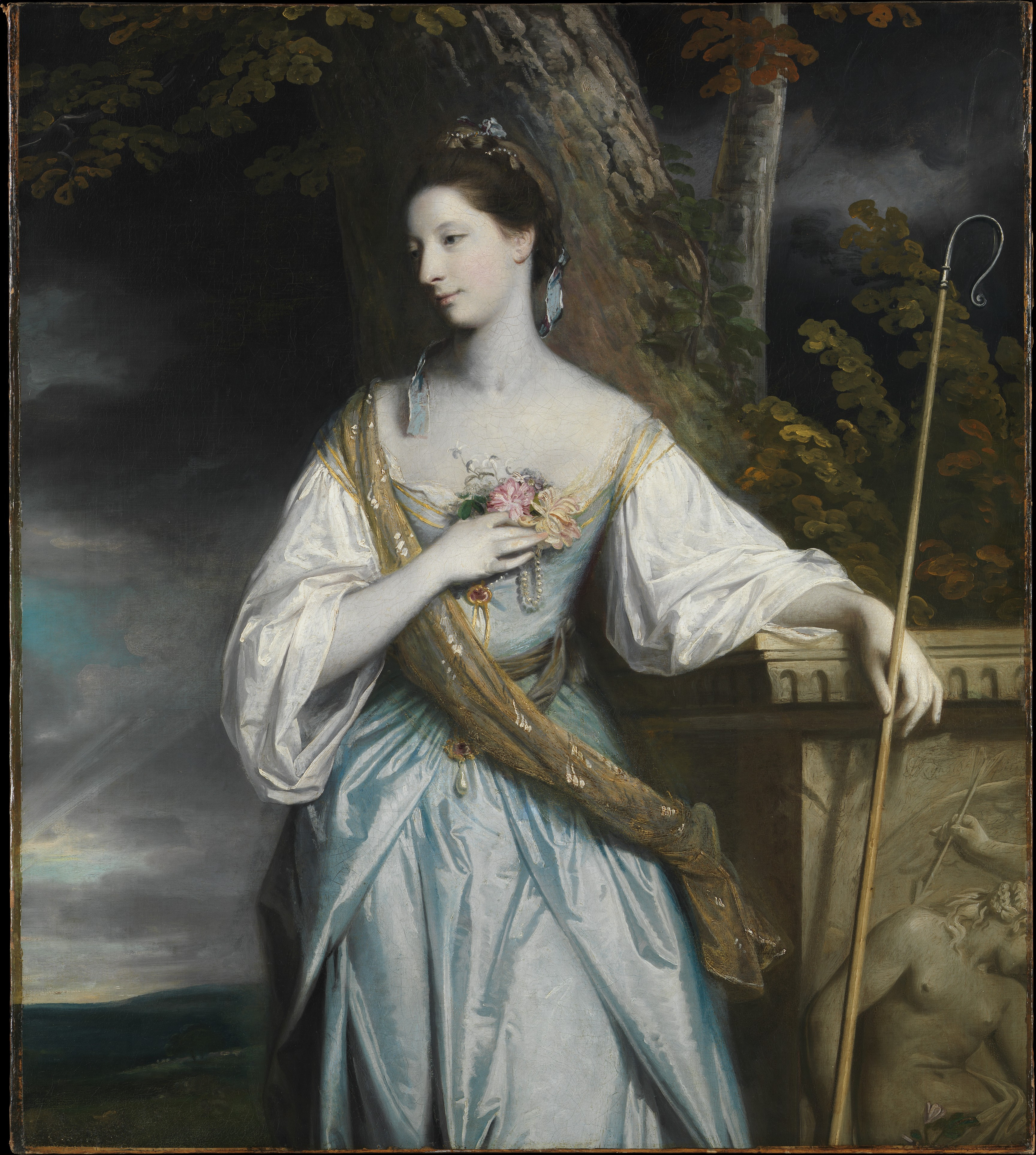 Anne Dashwood (1743–1830), Later Countess of Galloway Artist: Sir Joshua Reynolds (British, Plympton 1723–1792 London) Date: 1764 Medium: Oil on canvas Dimensions: 52 1/2 x 46 3/4 in. (133.4 x 118.7 cm), with strip of 7 1/8 in. (18.1 cm) folded over the top of the stretcher Classification: Paintings Credit Line: Gift of Lillian S. Timken, 1950 The sitter was the daughter of Sir James Dashwood, Member of Parliament for Oxford (whose portrait by Seeman is in the Aitken Galleries). She sat for Reynolds four times in the month preceding her marriage on June 13, 1764, to John Stewart, Lord Garlies, later seventh earl of Galloway. The artist presents her in the traditional guise of a shepherdess with a crook, but wearing a fashionable gauze scarf, rubies, and pearls. Her pallor may in part be accounted for by the fact that the flesh tones have faded.